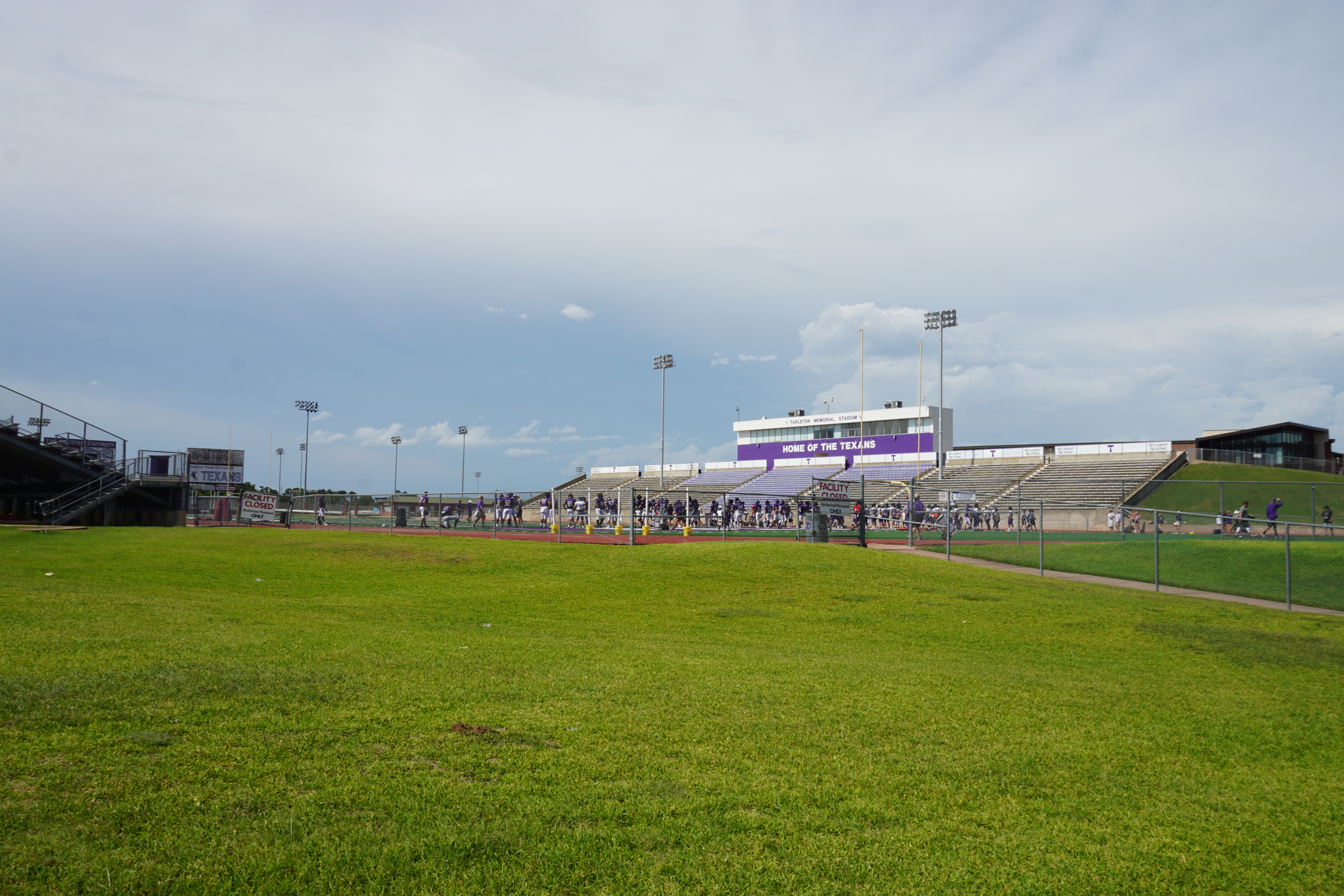 Memorial Stadium on the campus of Tarleton State University in Stephenville, Texas (United States).